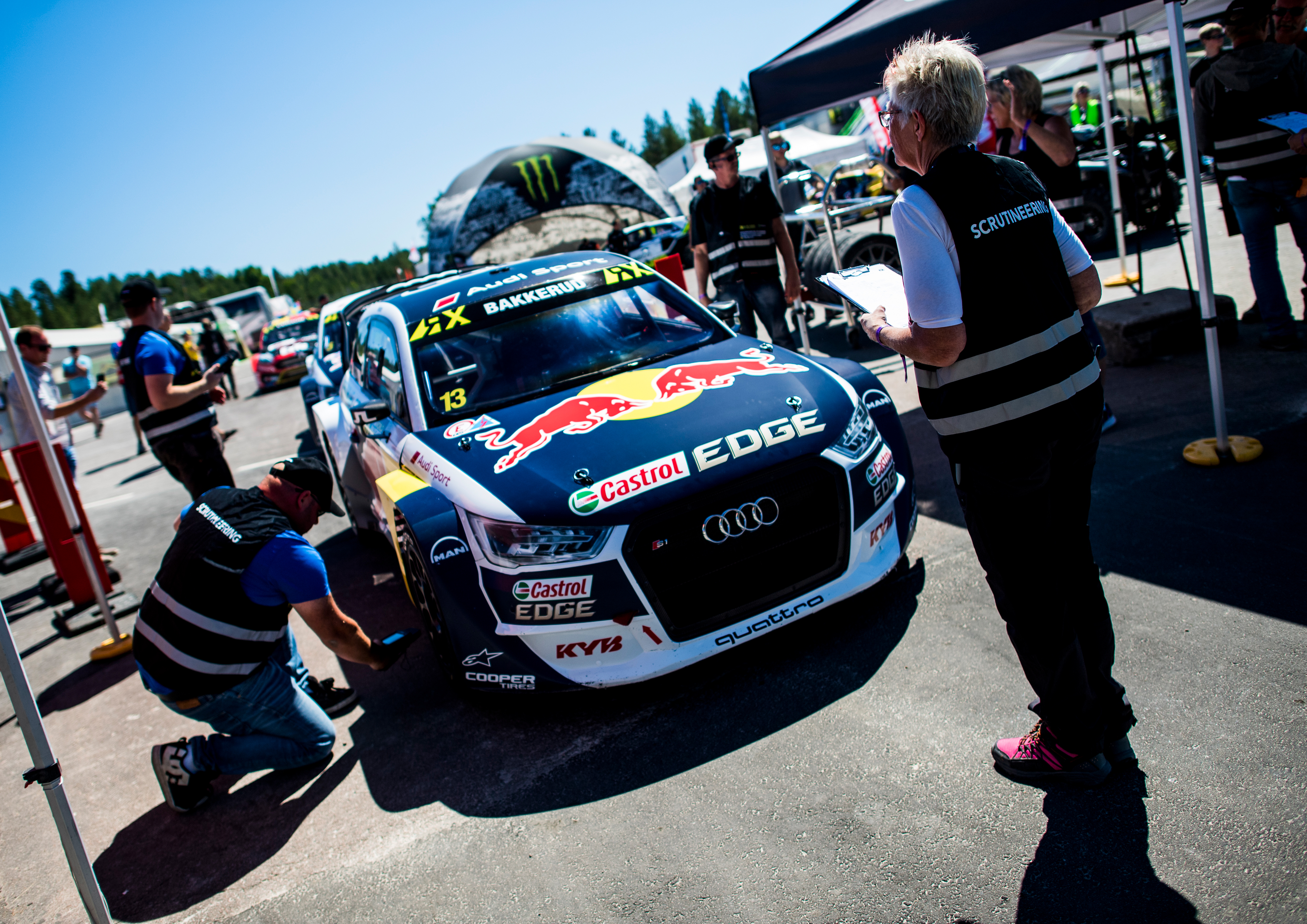 2018 FIA World Rallycross Championship // Round 6, Sweden, Holjes // Credit: EKS Audi Sport